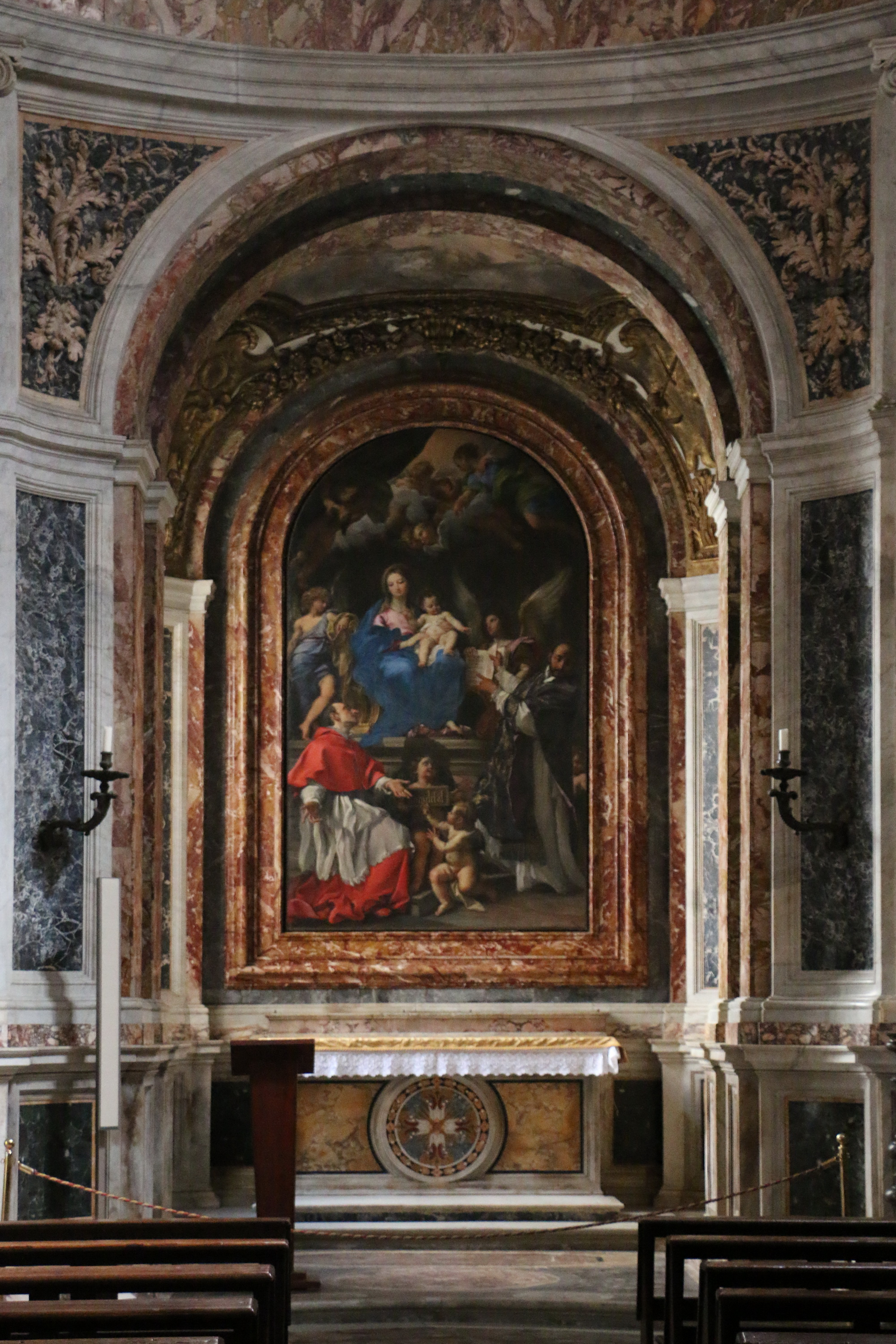 Madonna con Bambino tra San Carlo Borromeo e Sant'Ignazio - Carlo Maratta Chiesa di Santa Maria in Vallicella, Rome, Lazio, Italy Santa Maria in Vallicella Native nameChiesa di Santa Maria in VallicellaLocationRome, Lazio, ItalyCoordinates41° 53′ 54″ N, 12° 28′ 09″ E Authority control GND: 4459147-0